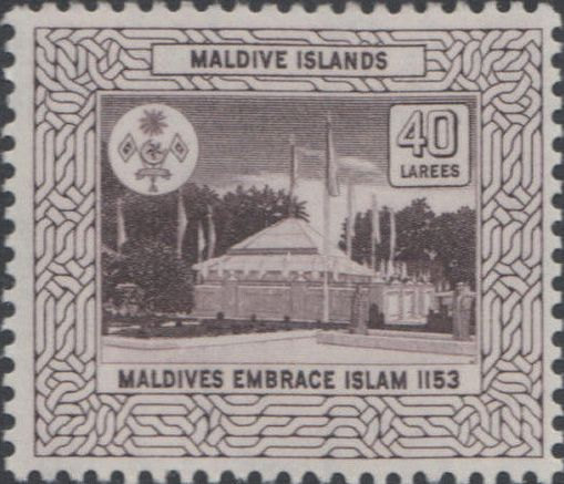 Maldives 1964 Islam 040